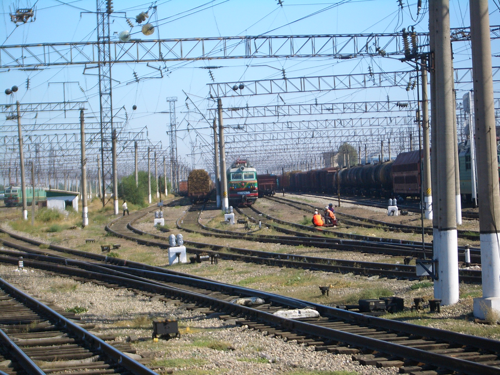 Shu, Kazakhstan, is an important rail junction, where Turksib is joined by the north-south Transkazakhstan rail line to Astana and Petropavlovsk.